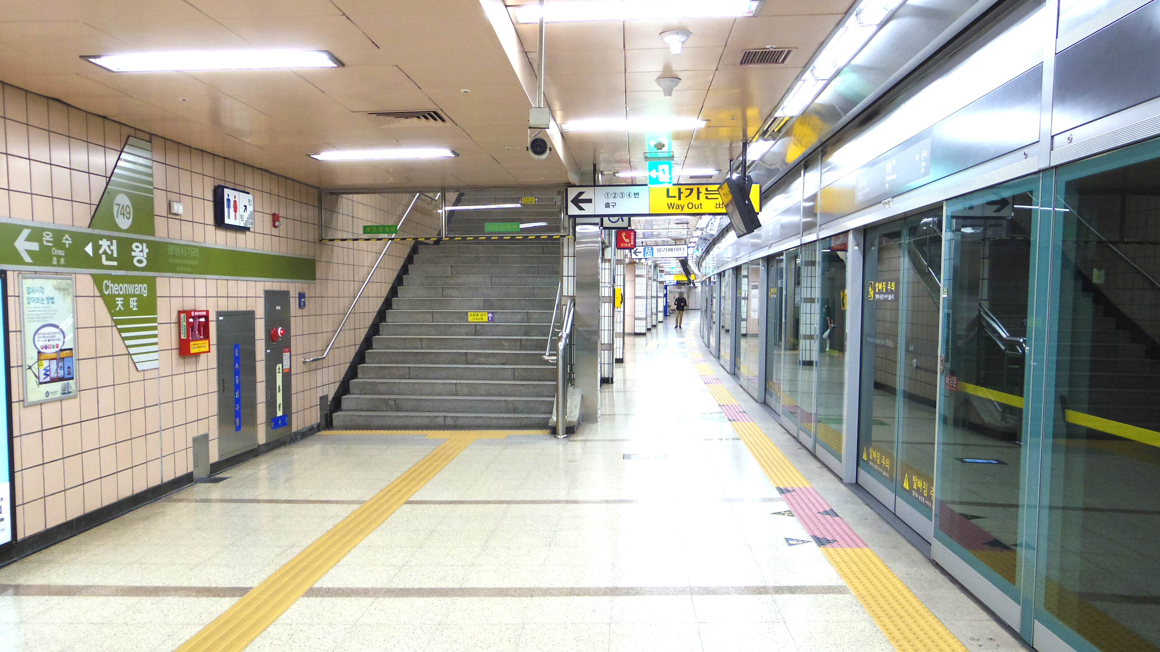 The Onsu-bound platform at Cheonwang Station on the Seoul Subway Line 7 in Guro-gu, Seoul, Republic of Korea(South Korea)